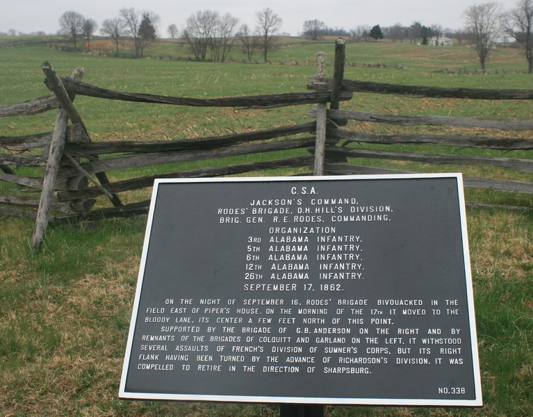 Antietam battlefield, Bloody line, Rodes brigade marker